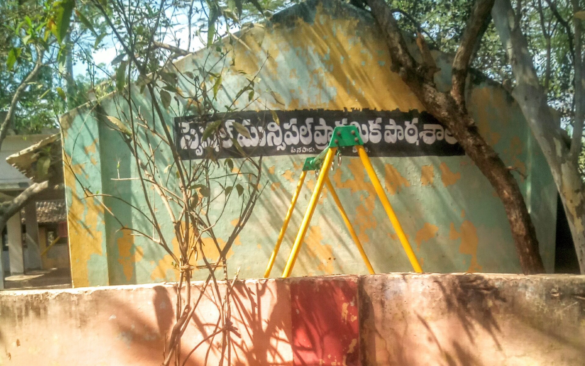 Special Municipal Primary School at Pinapadu area in Tenali